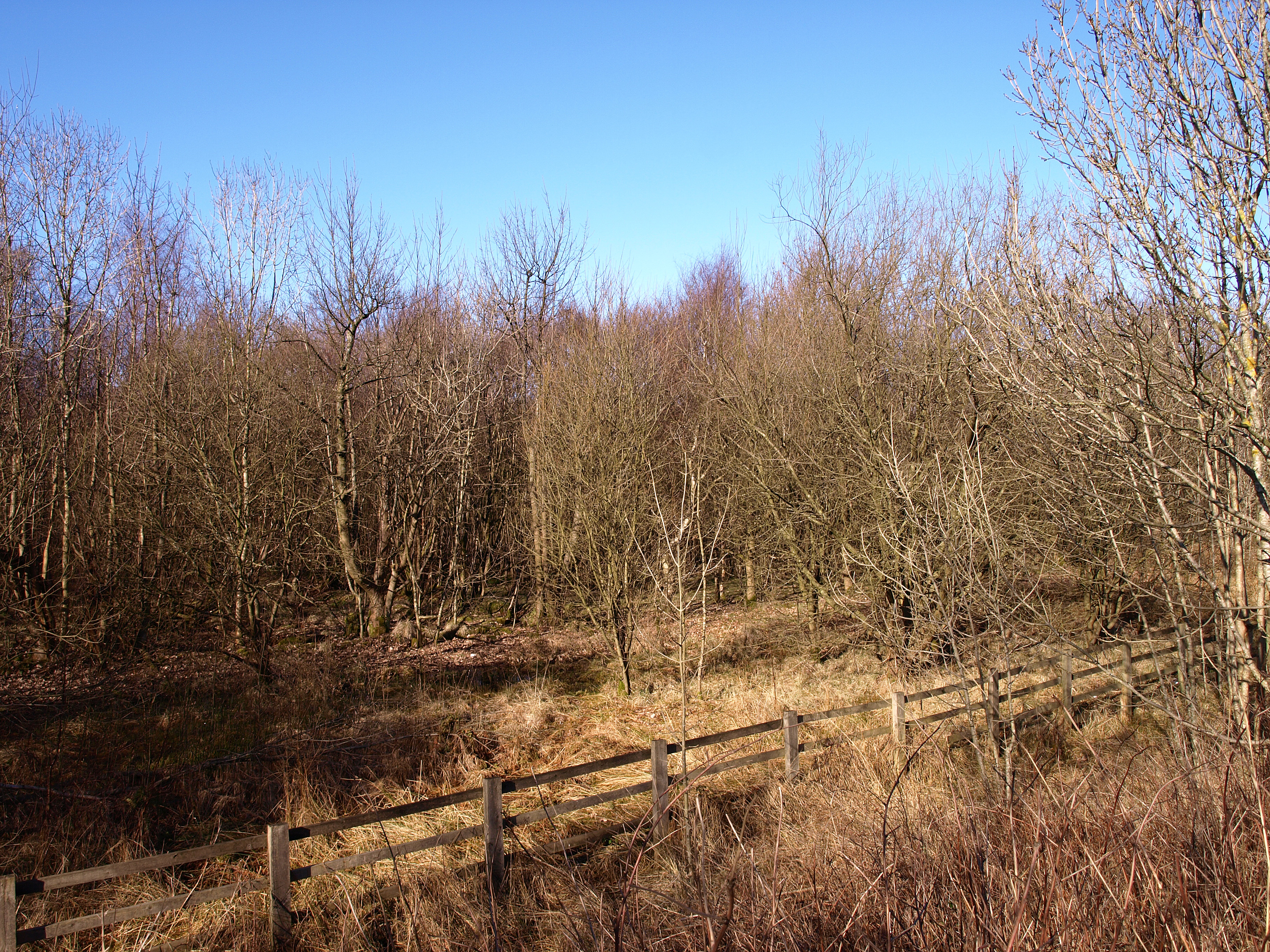 Rashielee Plantation Just off the A726, Erskine